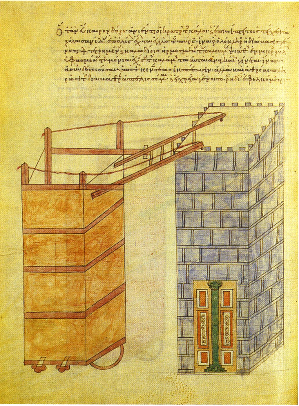 Apollodorus of Damascus, Poliorketika 170: siege tower. Ms. Paris, Bibliothèque Nationale, Graec. 2442, fol. 97v.